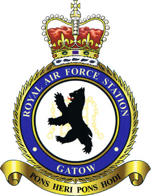 Royal Air Force station Gatow coat of arms